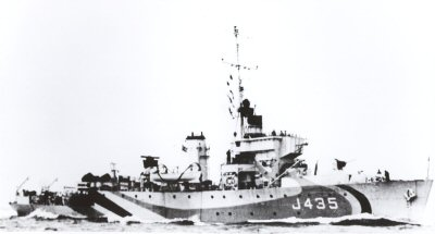 HMS Maenad showing pennant J435, and in dazzle camouflage. launched 1944, Algerine-class minesweeper, scrapped in 1957.